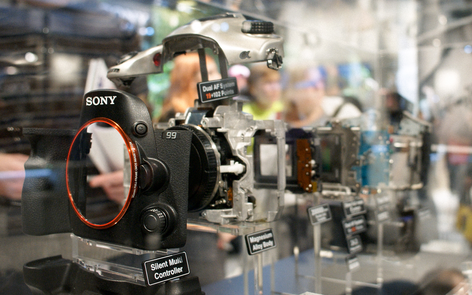 Photokina 2012, Cologne